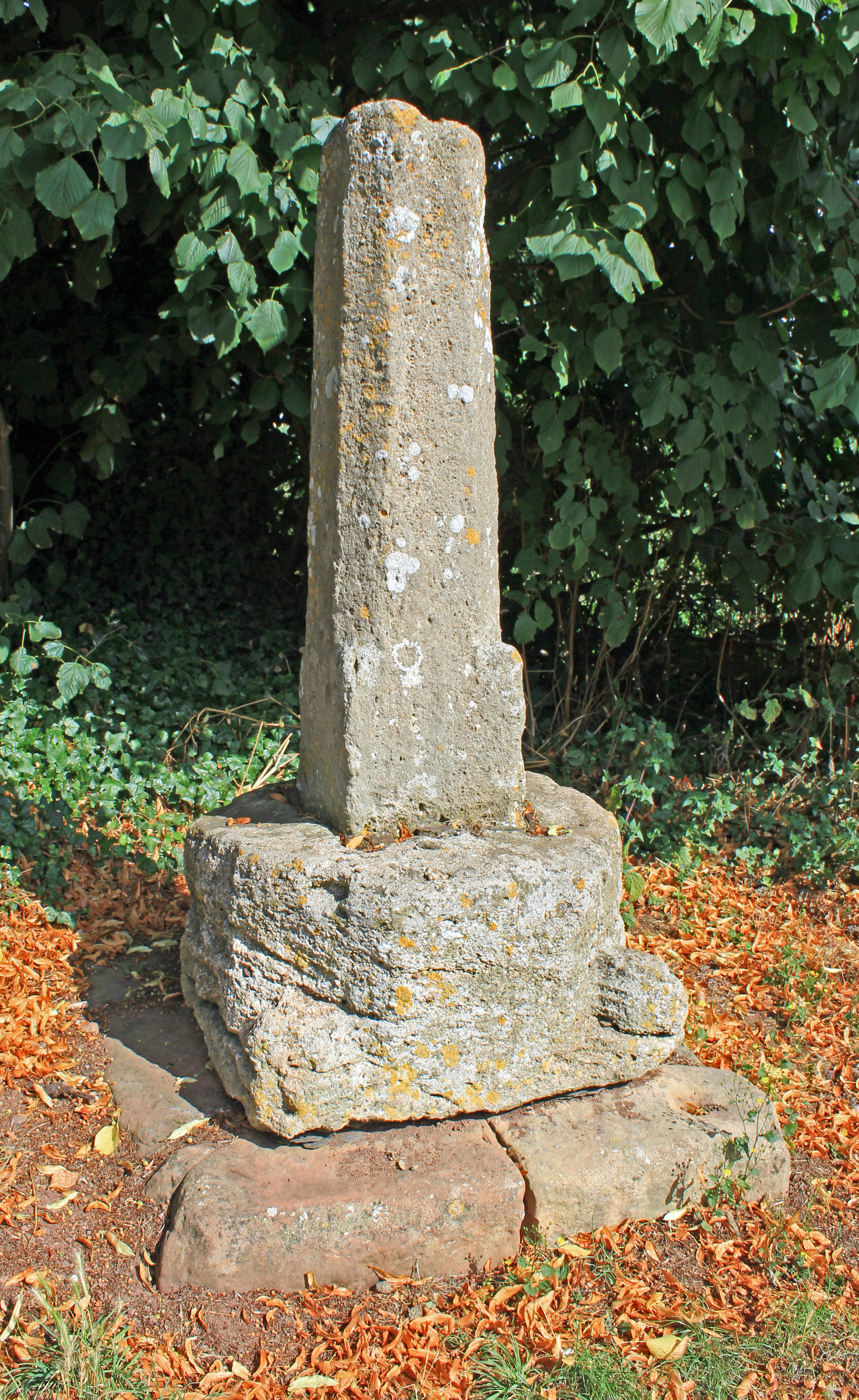 Remains Of Churchyard Cross, About 15 Metres North Of North Aisle Door, Church Of St Peter, Williton